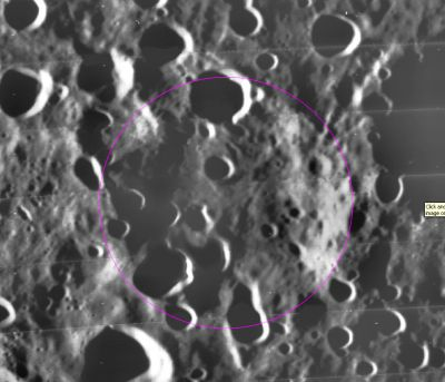 Annotated Lunar Orbiter image from Map-A-Planet.